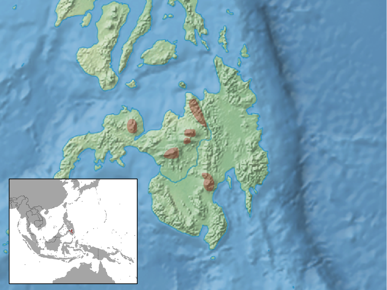 geographic distribution of Tarsomys apoensis